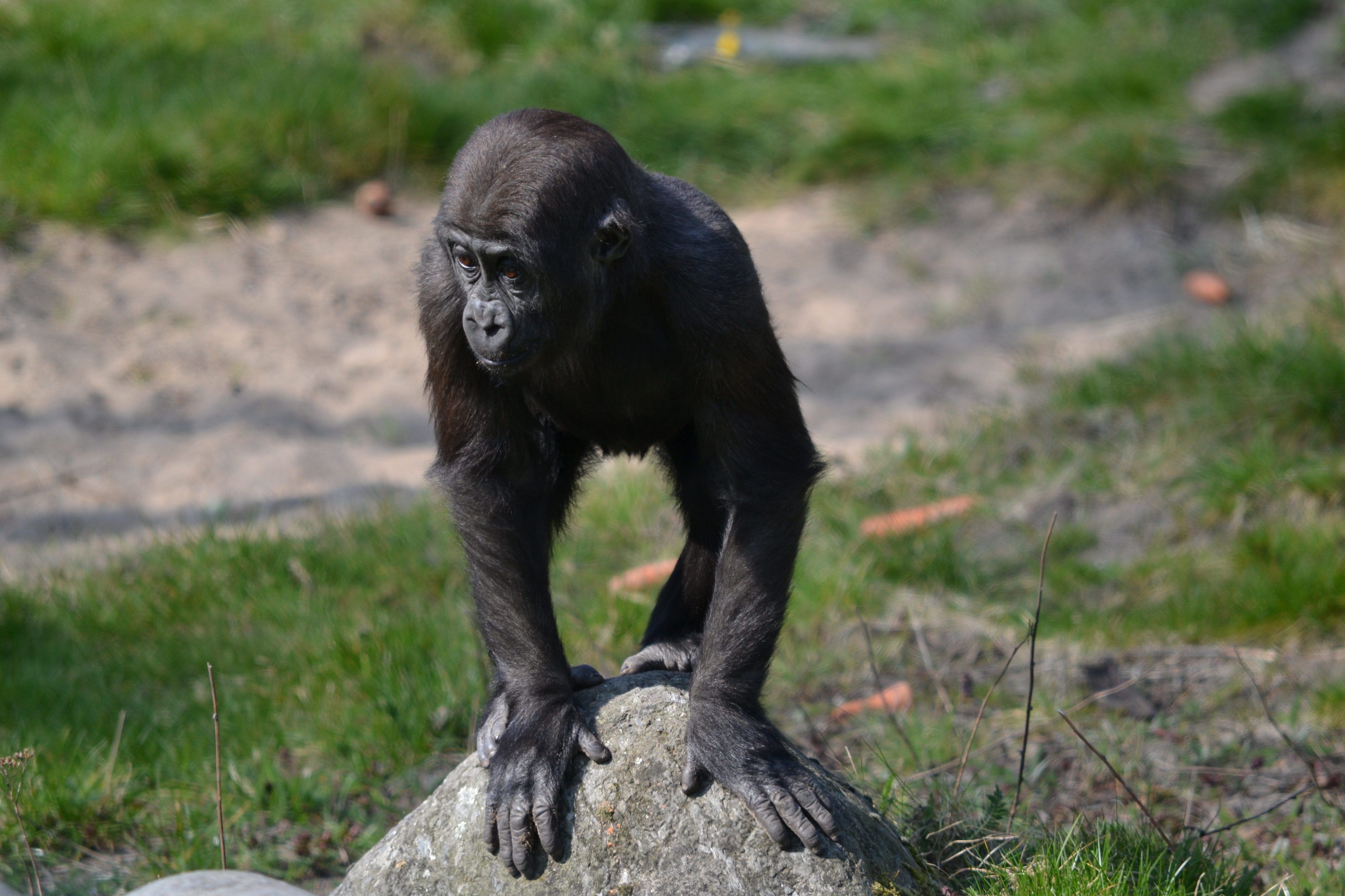 The western lowland gorilla (Gorilla gorilla gorilla) is a subspecies of the western gorilla (Gorilla gorilla) that lives in montane, primary, and secondary forests and lowland swamps in Angola, Cameroon, Central African Republic, Congo, Democratic Republic of the Congo, Equatorial Guinea and Gabon.